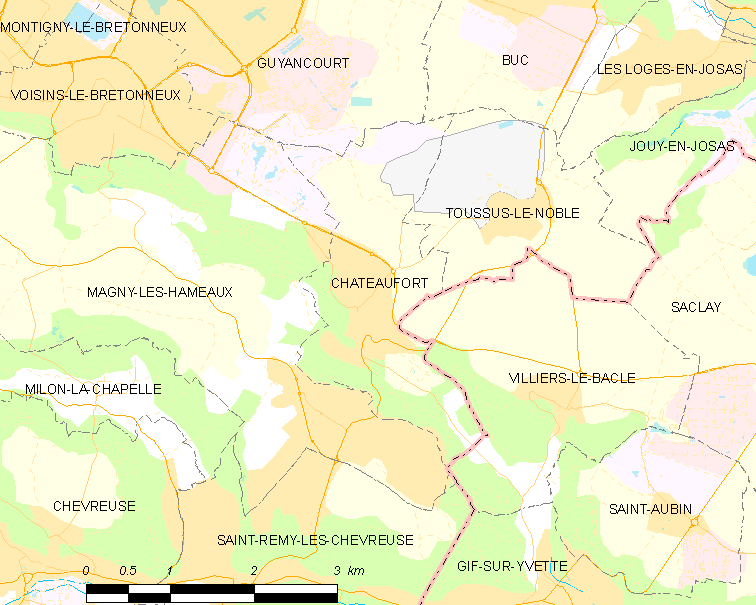 Map of French municipality Châteaufort